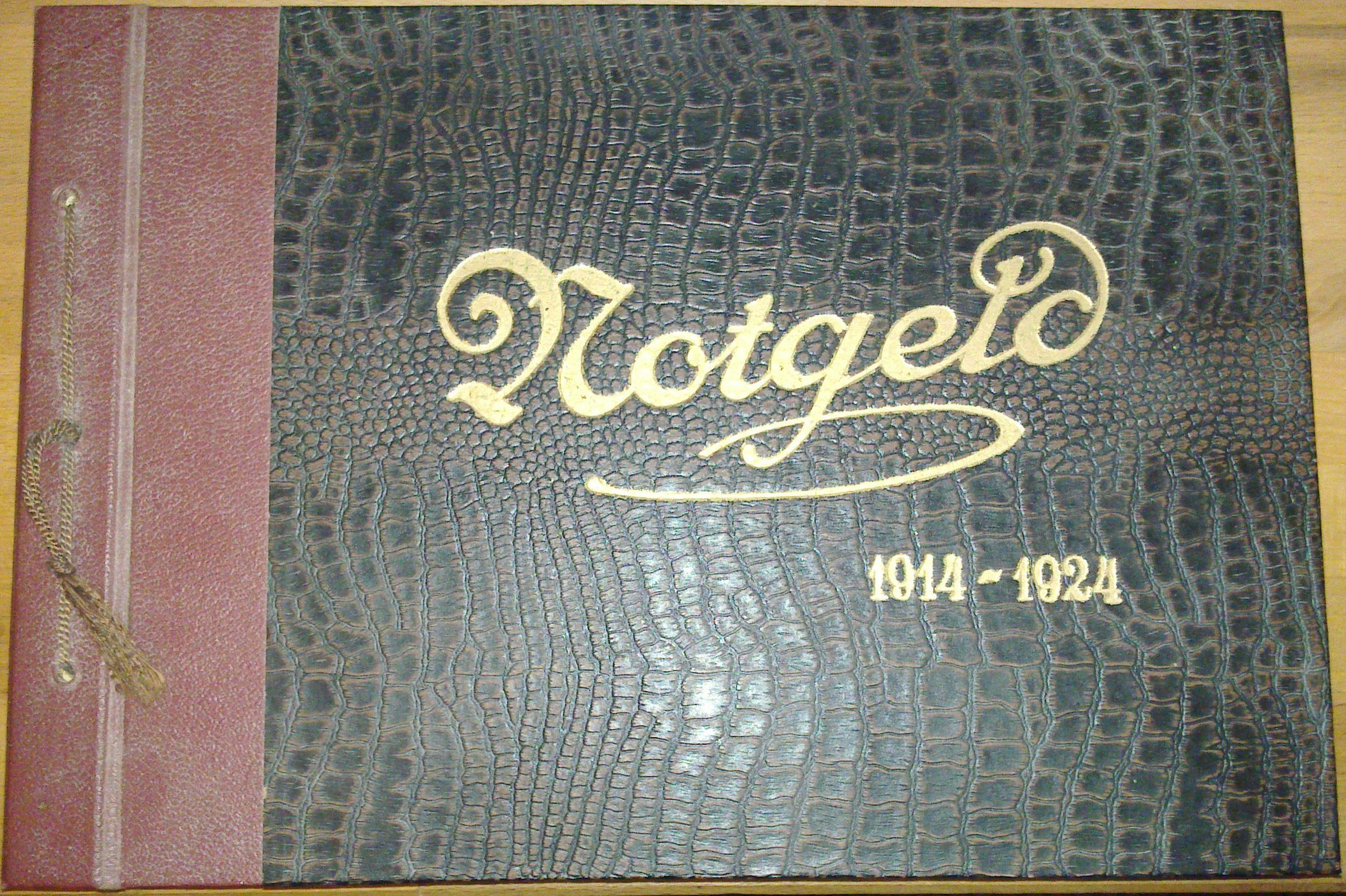 a Lieban Notgeld album